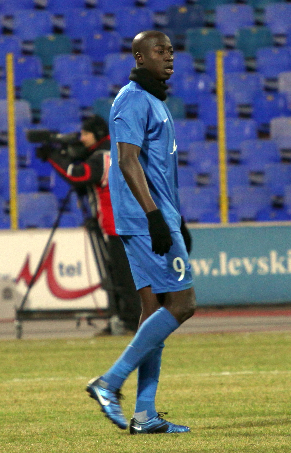 Garra Dembélé (born 21 February 1986 in Gennevilliers) is a French-born Malian footballer. He currently plays as a forward for Levski Sofia